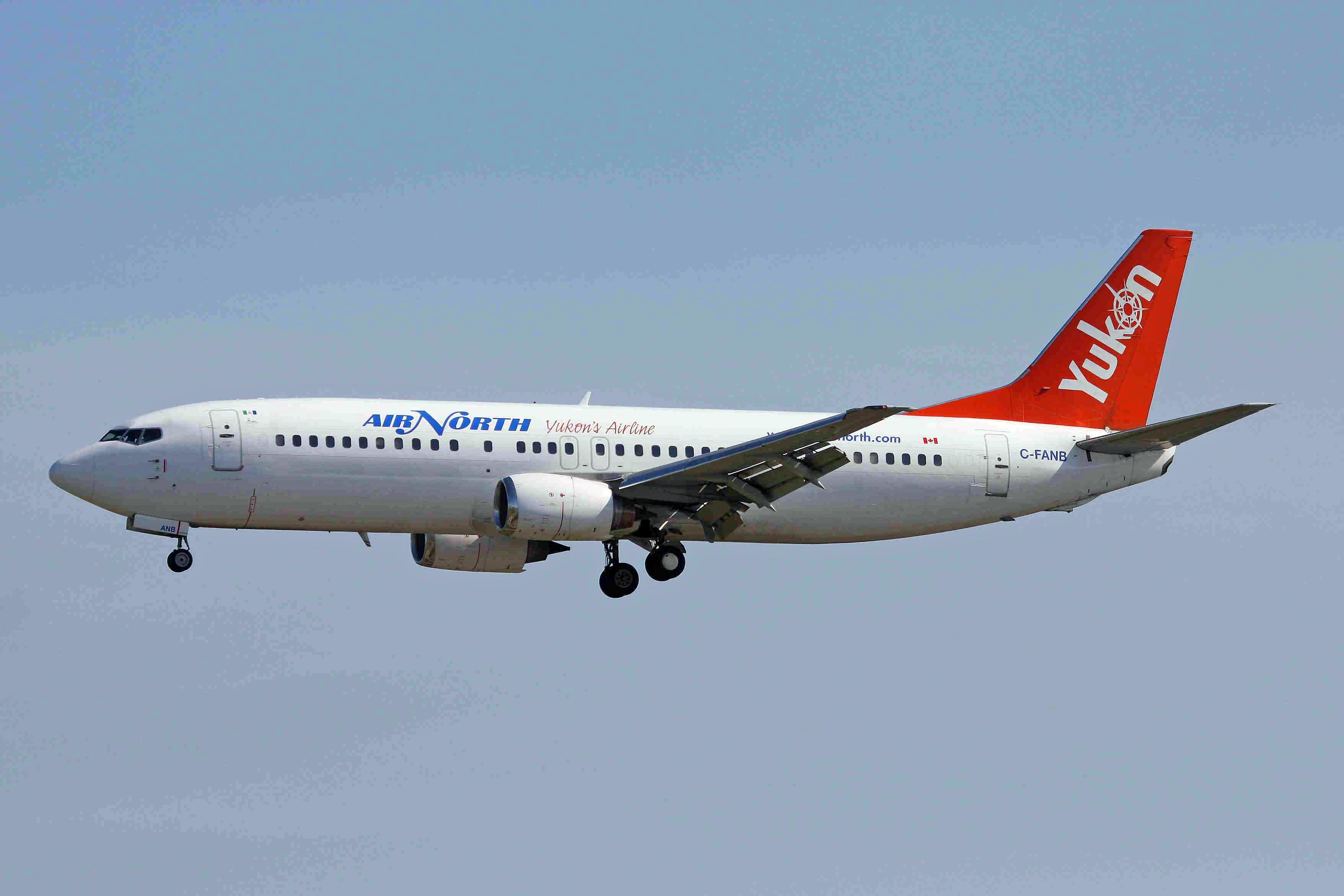 A picture of an airplane (name of it is on the file name).